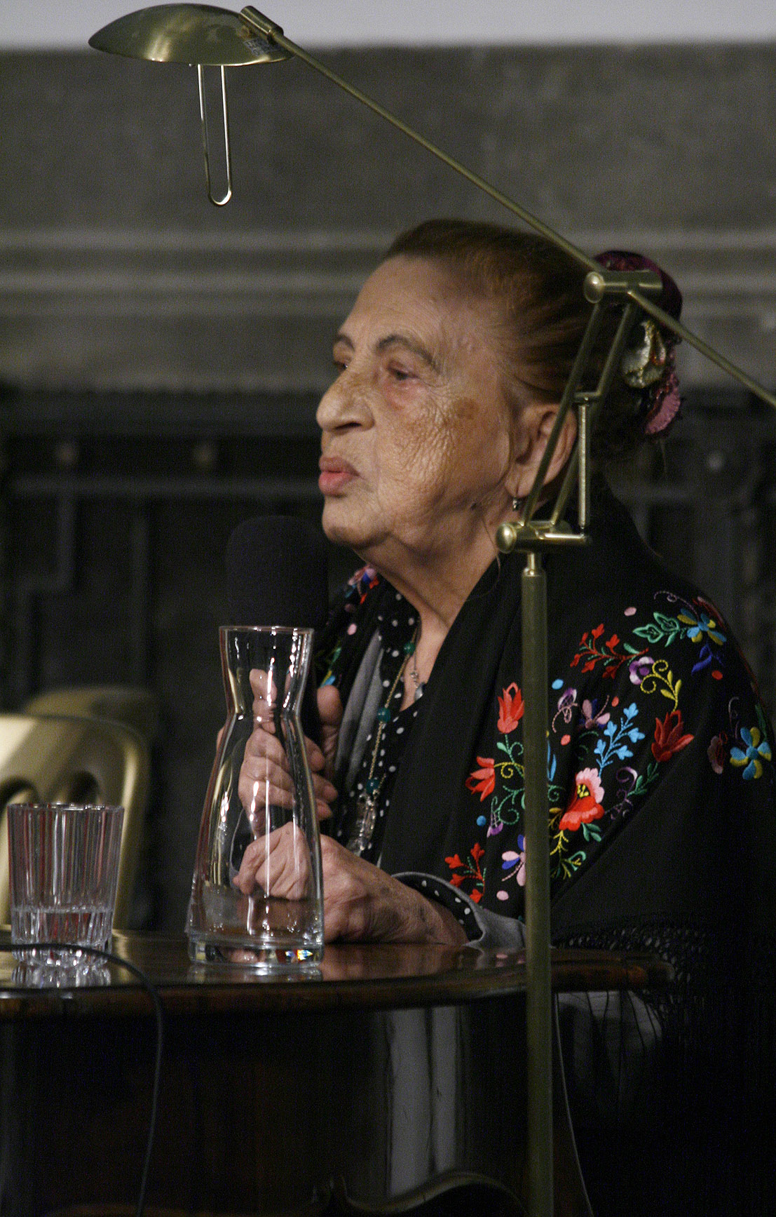 Austrian writer and painter Ceija Stojka during a book presentation at the Camineum of the Austrian National Library in Vienna.